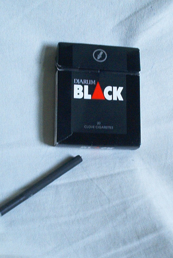 my pic=in pd. Djarum "Black" clove cigarettes